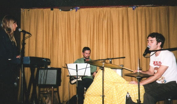 live photo of The Curtains at the Hemlock Tavern in San Francisco, CA